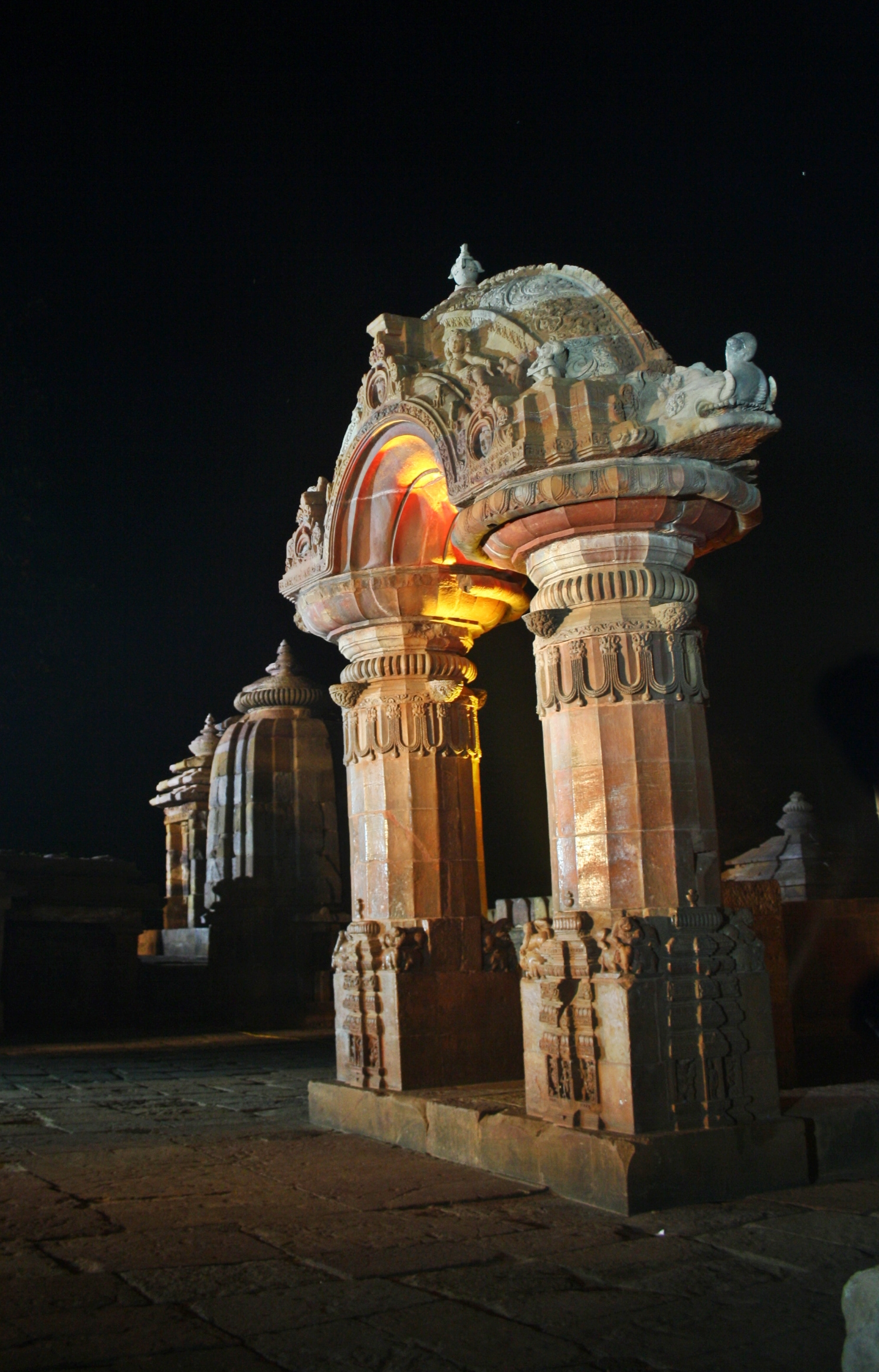 Mukteswar temple with its minar shrines but excluding the Murich Kunda.